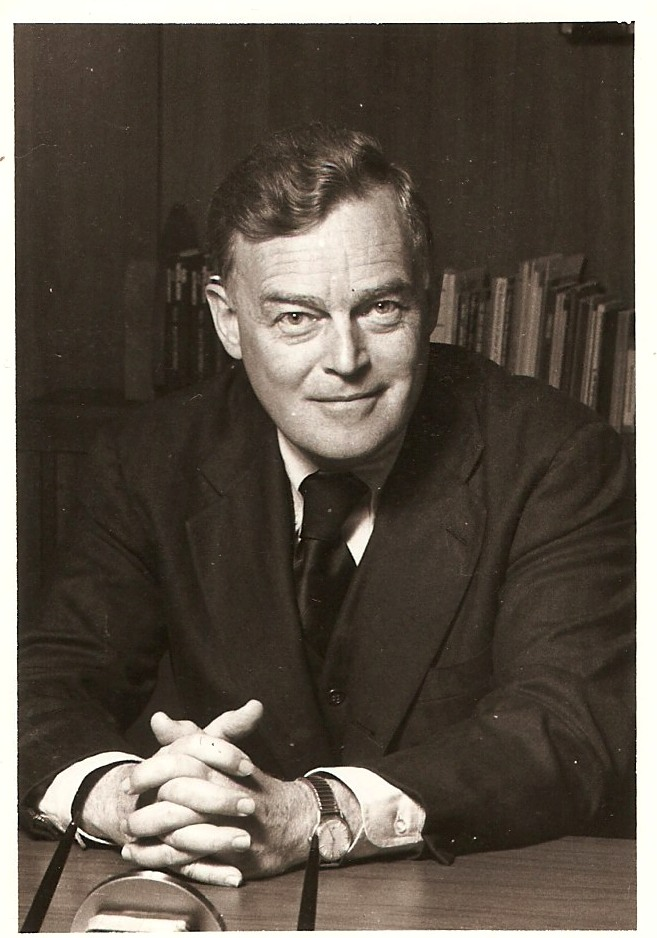 Scanned photograph of Robert D Preus, theologian